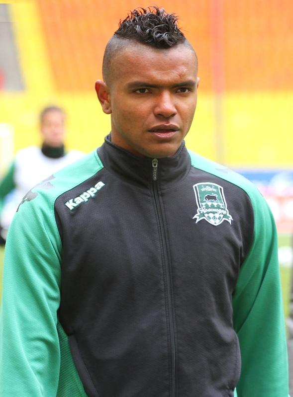 Wánderson do Carmo with FC Krasnodar in 2013.